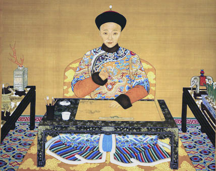 Qing Emperor Xianfeng reading